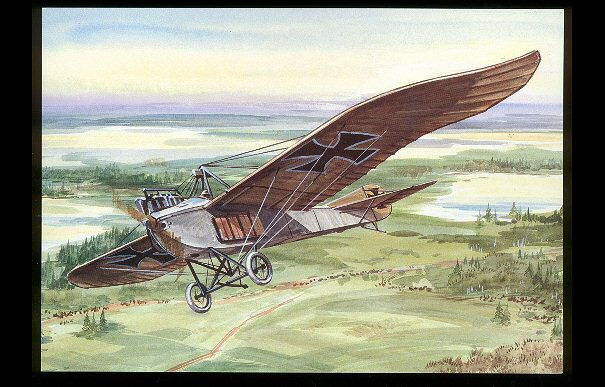 Rumpler Taube 4C